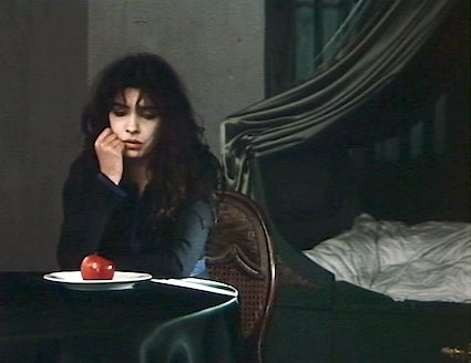 Psyche before the birth of her child